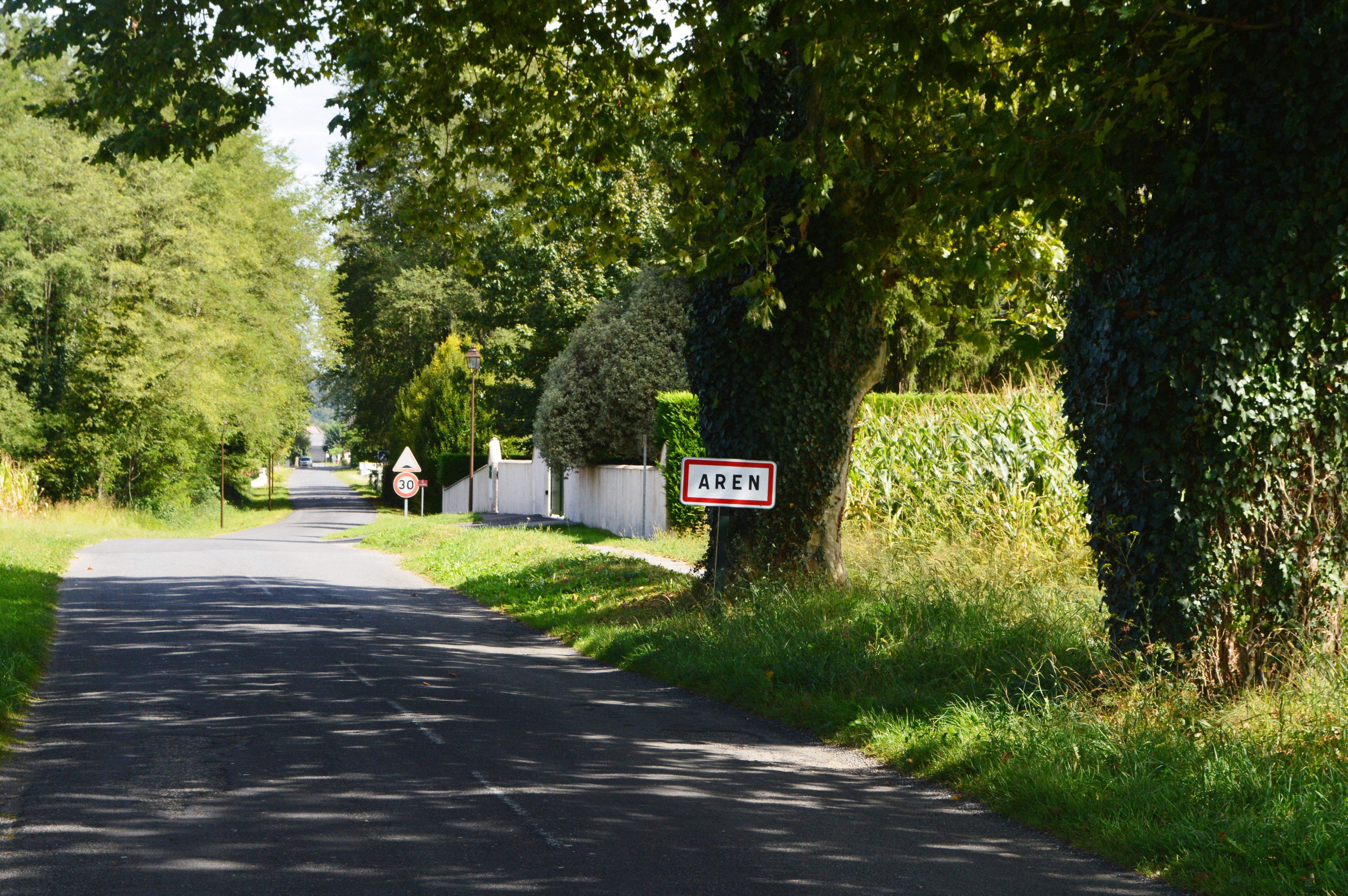 The Entrance to Aren